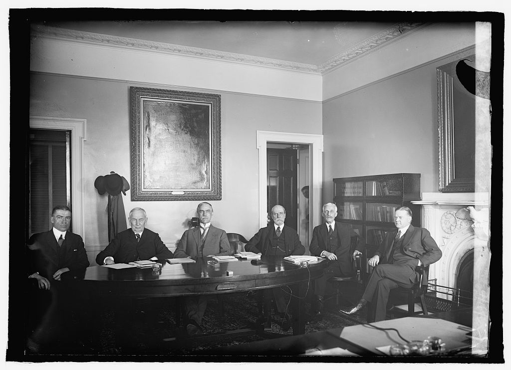 Title: World War Foreign Debt Commission, 4/18/22 Abstract/medium: 1 negative : glass ; 5 x 7 in. or smaller